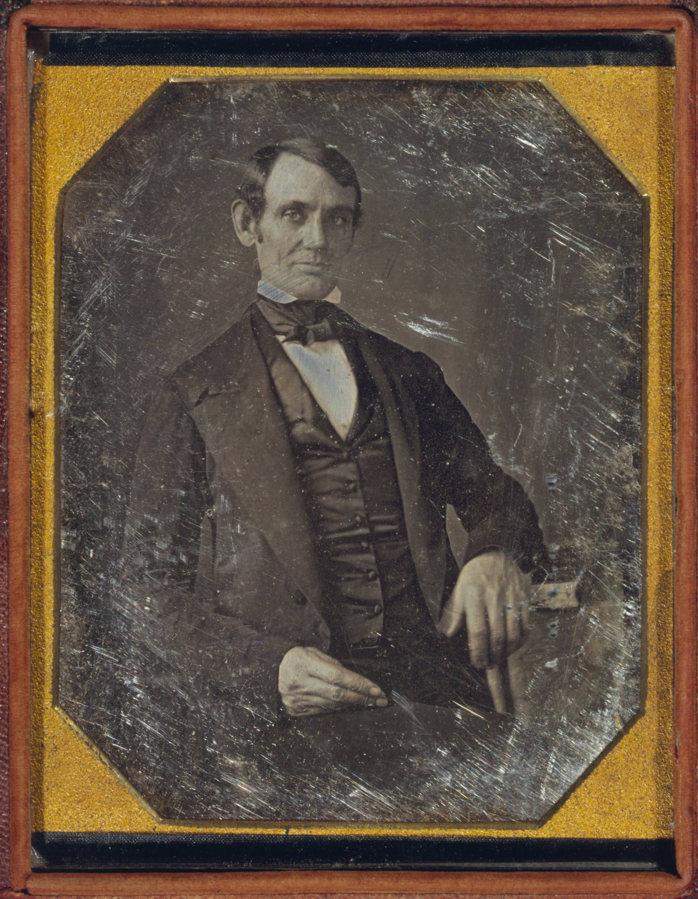 This daguerreotype is the earliest-known photograph of Abraham Lincoln, taken at age 37 when he was a frontier lawyer in Springfield and Congressman-elect from Illinois. (Source: Ostendorf, p. 4) Attributed to Nicholas H. Shepherd, based on the recollections of Gibson W. Harris, a law student in Lincoln's office from 1845 to 1847. (Source: Gibson William Harris, "My Recollections of Abraham Lincoln," Women's Home Companion (November 1903), 9-11.) Robert Lincoln, son of the President, thought the photo was made in either St. Louis or Washington during his father's term in Congress. Published in: Lincoln's photographs: a complete album / by Lloyd Ostendorf. Dayton, OH: Rockywood Press, 1998, p. 4-5.